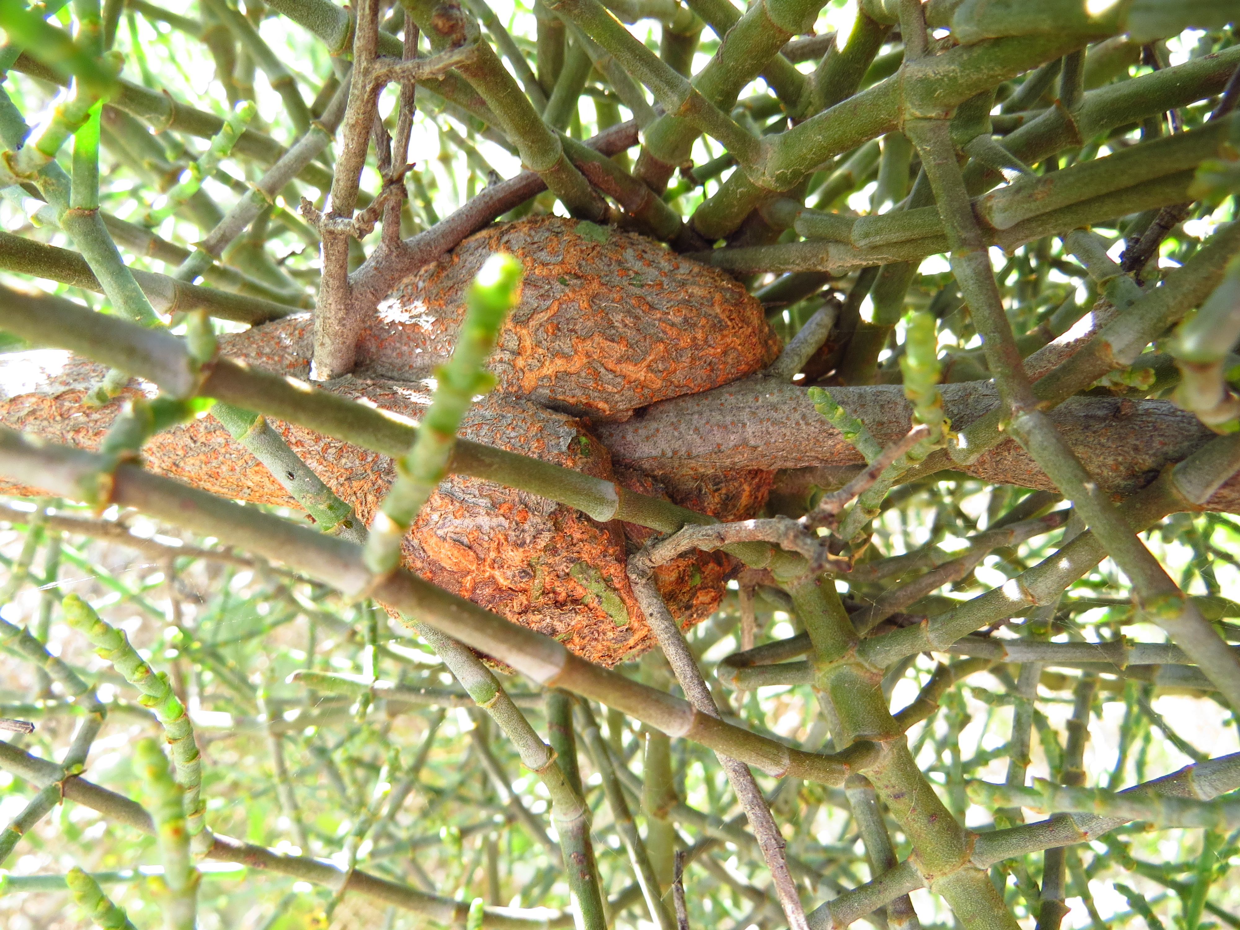 Series of photographs showing a large plant of Viscum capense on unidentified Searsia, showing its shape and the effect it has in strangling the part of the branch distal to the haustorium